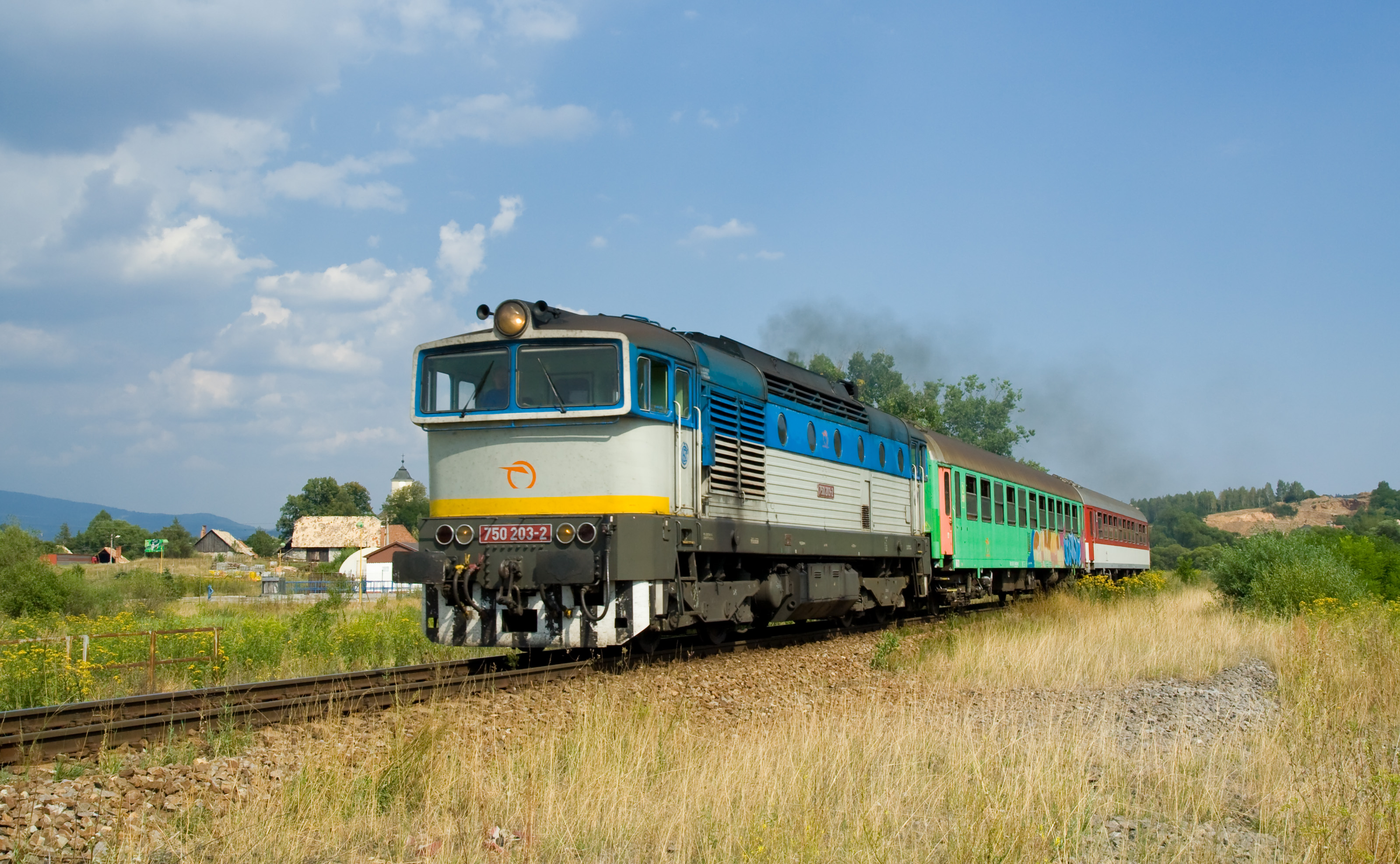 Železničná spoločnosť Slovensko (Slovakian national railways) class 750 ("goggles", "Taucherbrille" (diving goggles) in German) between Zvolen and Zvolenska Slatina, Slovakia.